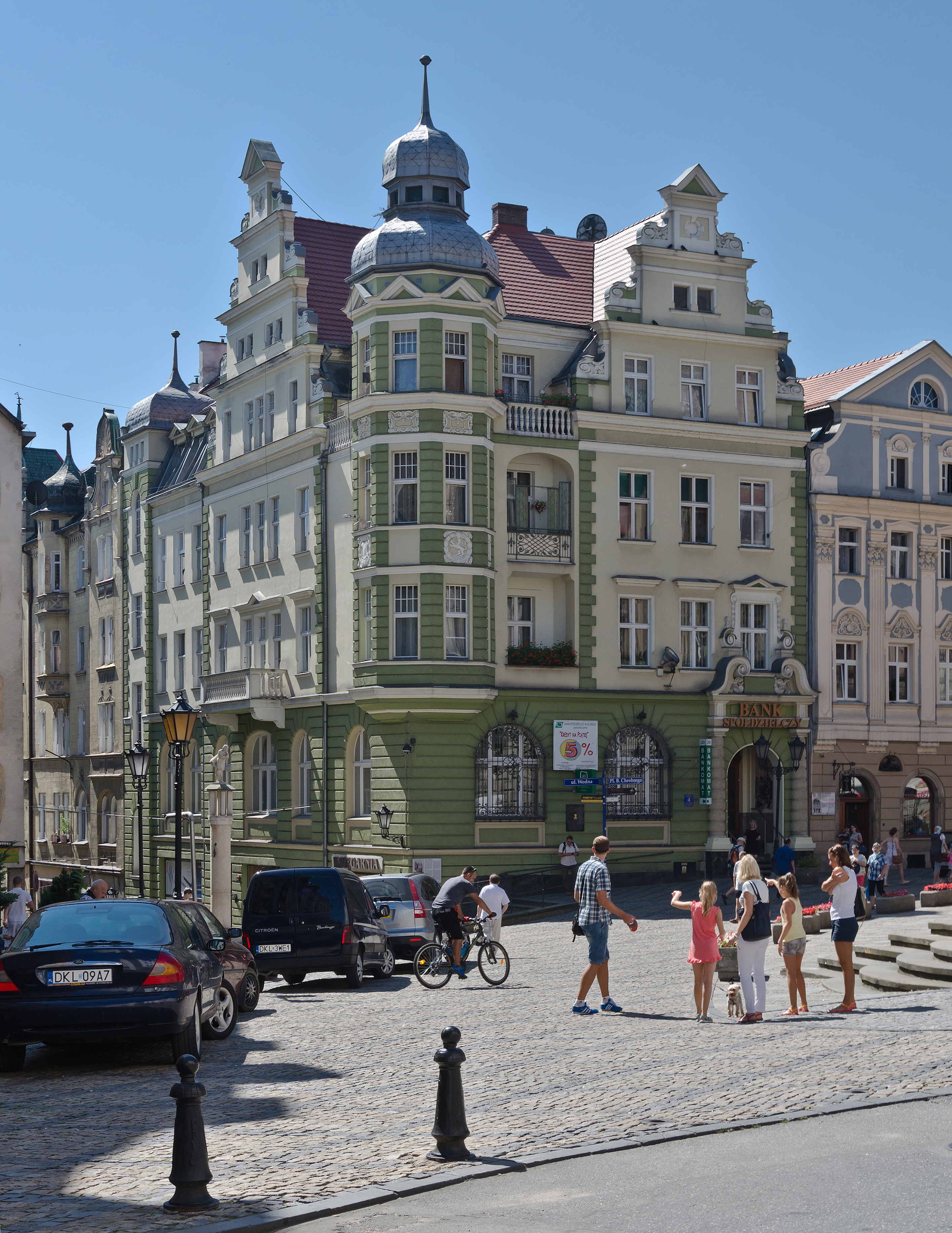 4 Bolesława Chrobrego Square in Kłodzko